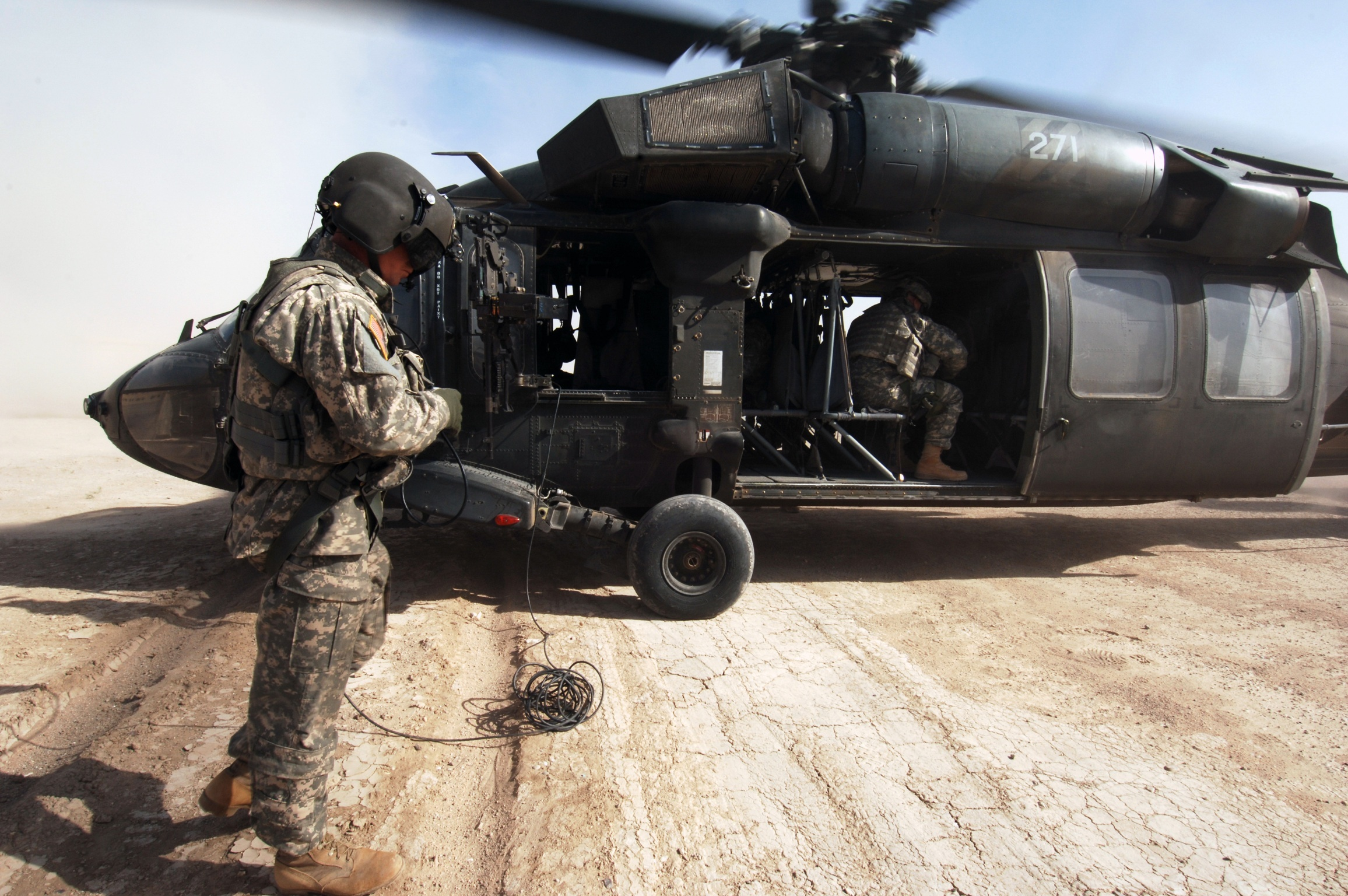 Preparing to board a Black Hawk helicopter in Iraq. (Photo by Luke Thornberry)